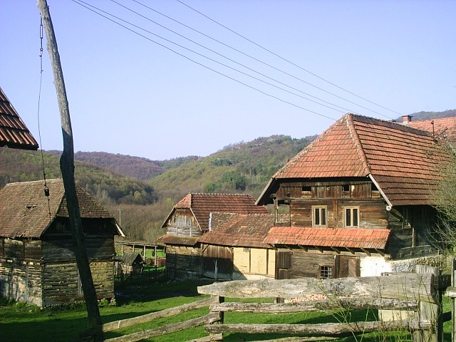 Folk architecture in the Kordun area, Croatia TF2-A0A3